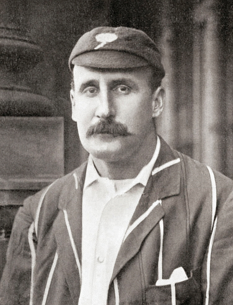 Martin Bladen Hawke, 7Th Baron Hawke Of Towton, 1860 - 1938, Aka Lord Hawke. English Cricketer, Administrator And Captain Of The Yorkshire County Cricket Club. From Picturesque History Of Yorkshire, Published 1899